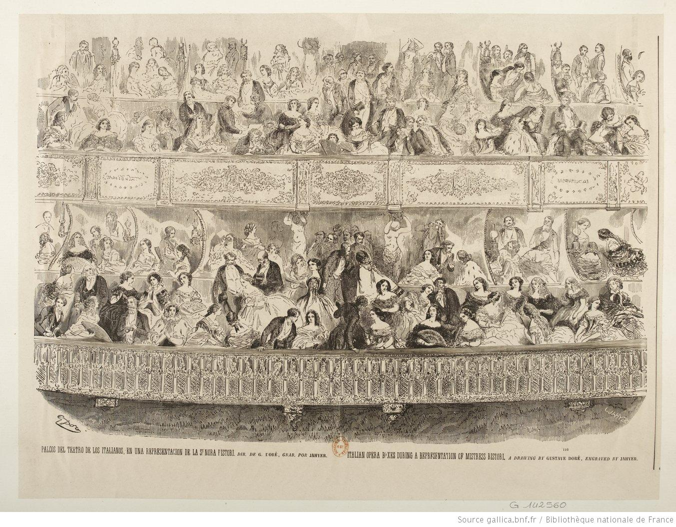 Italian opera boxes during a representation of Mistress Ristori. ca. 1856